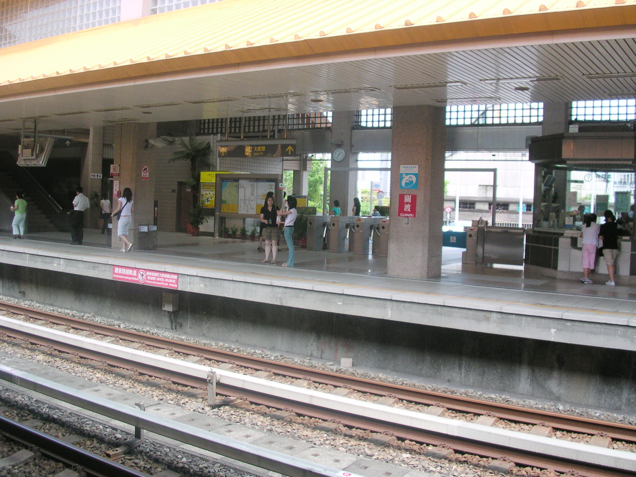 Inside Taipei MRT Guandu Station.